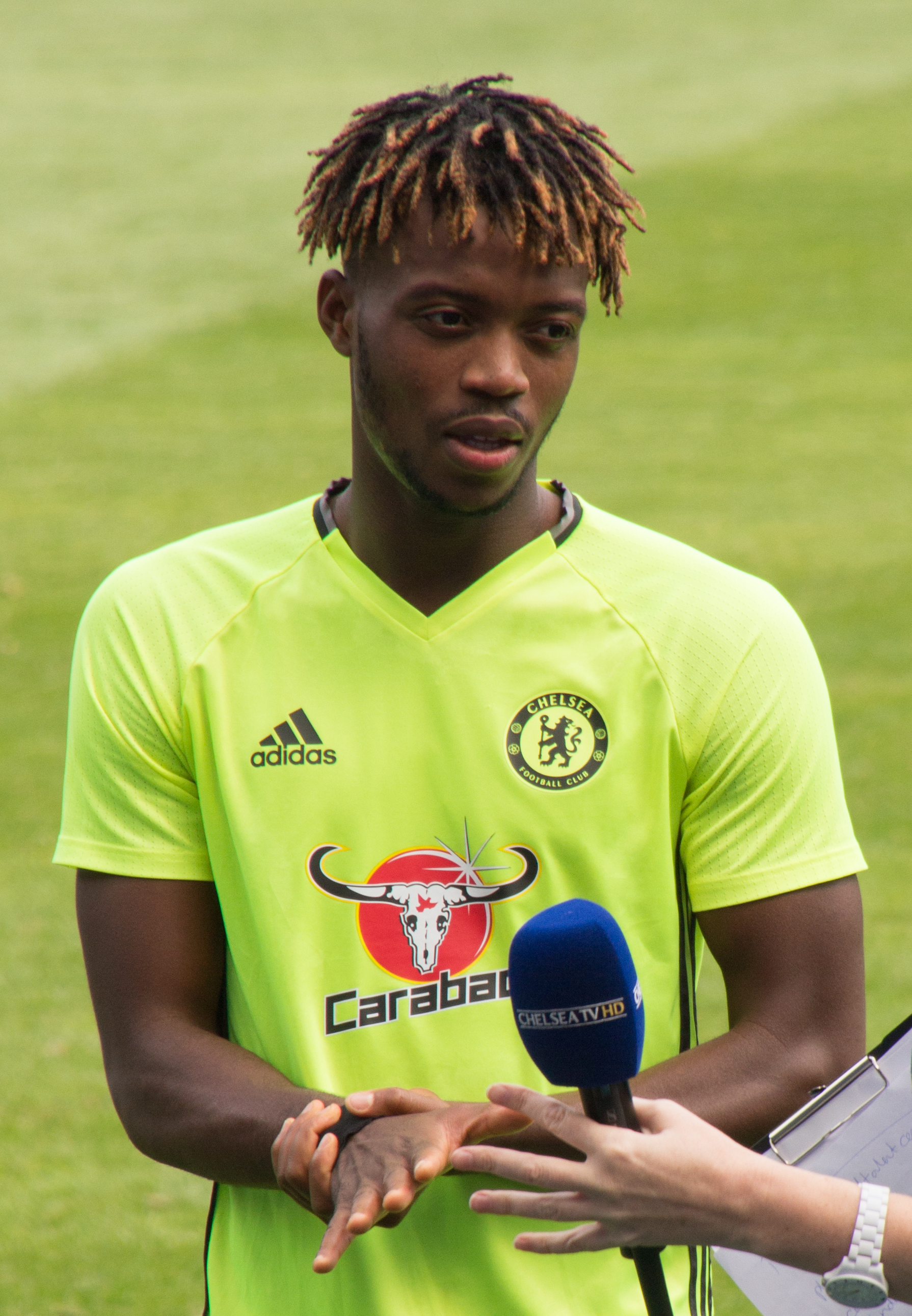 Chelsea Open Training Day